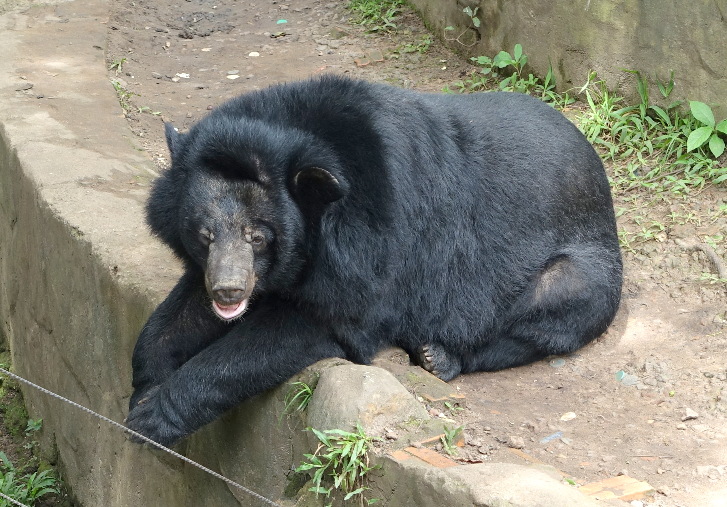 Bear (unknown) - Saigon Zoo and Botanical Gardens - Ho Chi Minh City, Vietnam, Vietnamese called: Gấu ngựa (Horse bear.